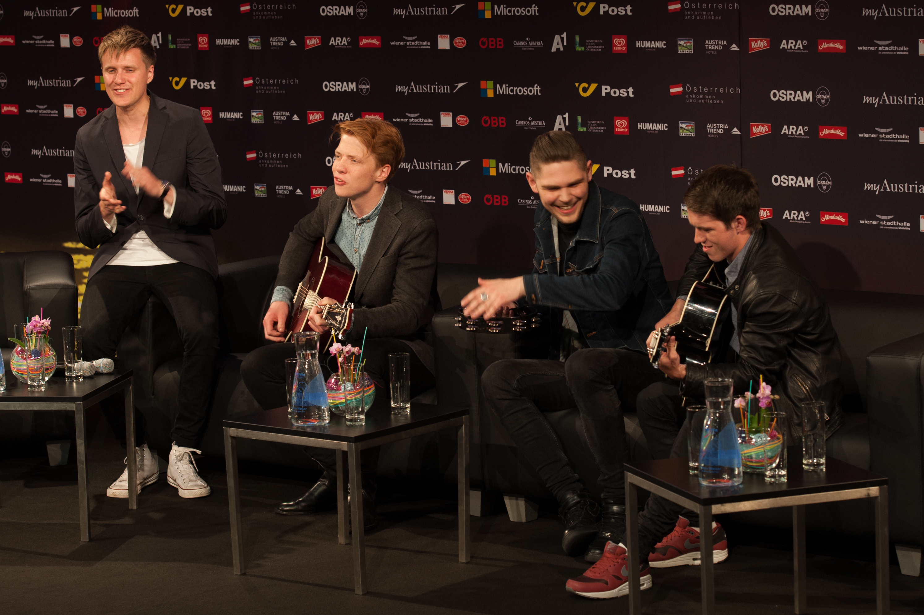 Eurovision Song Contest Vienna 2015: Anti Social Media